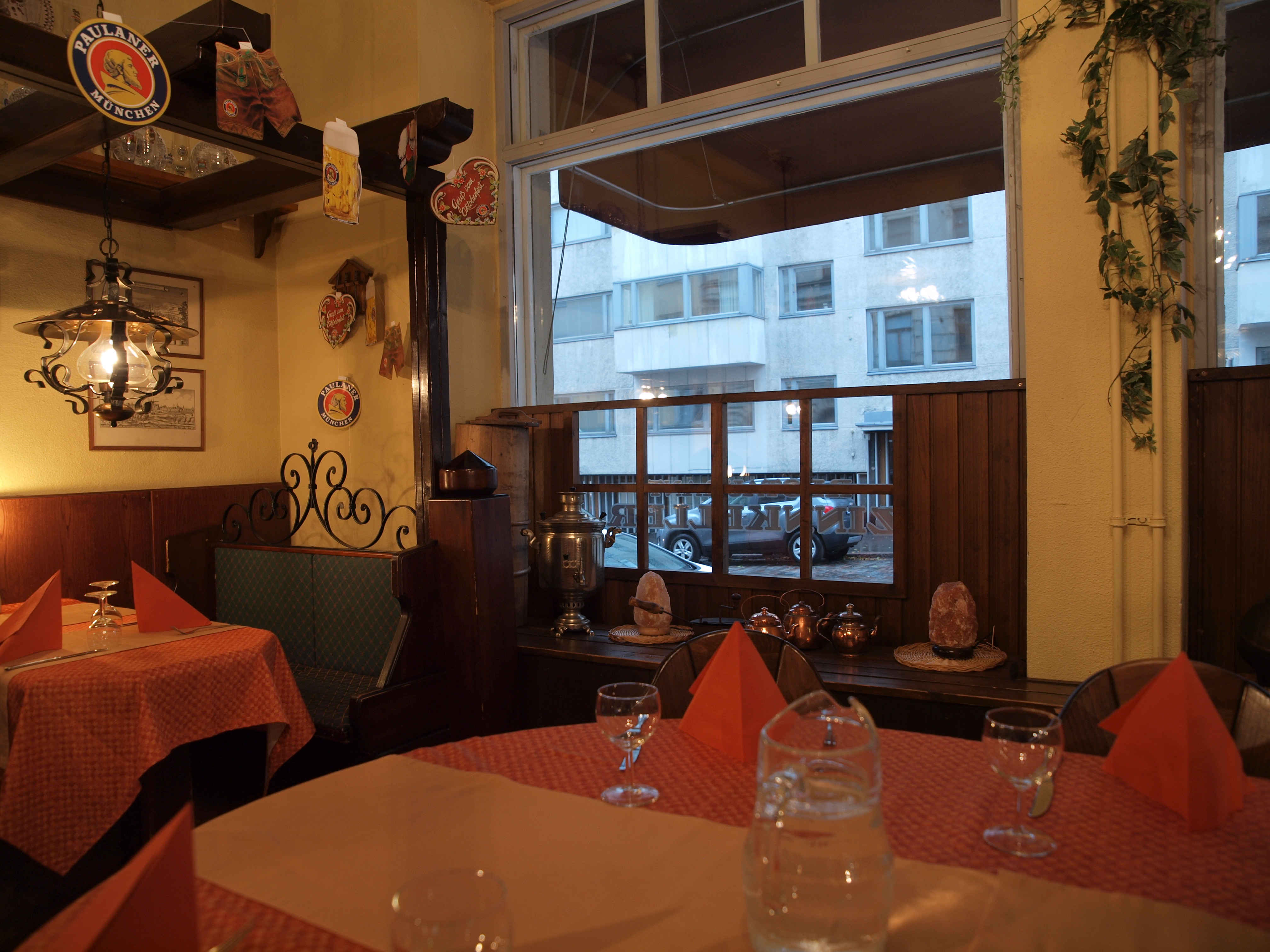 The interior of restaurant Zinnkeller, an authentic German restaurant in Kruununhaka, central Helsinki, Uusimaa, Finland.